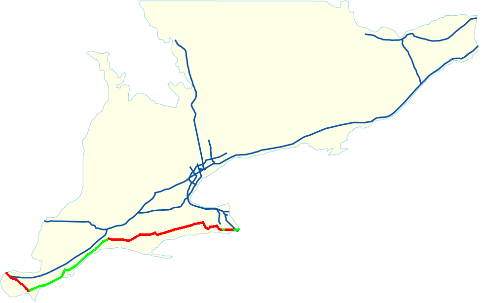 based on :en:Image:400-series-network.gif|Image:400-series-network.gif by User:Snickerdo